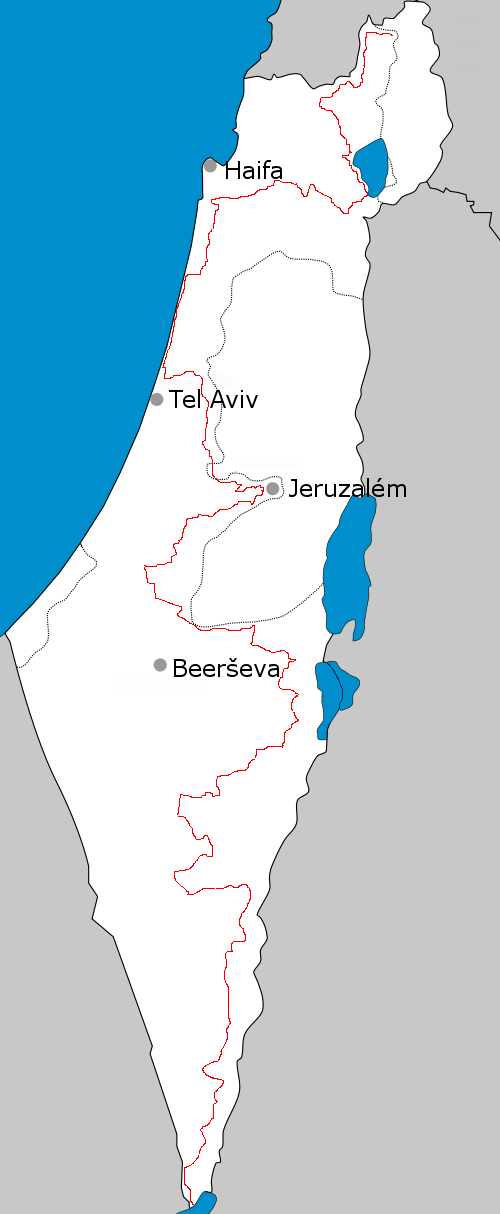 Israel National trail map CS